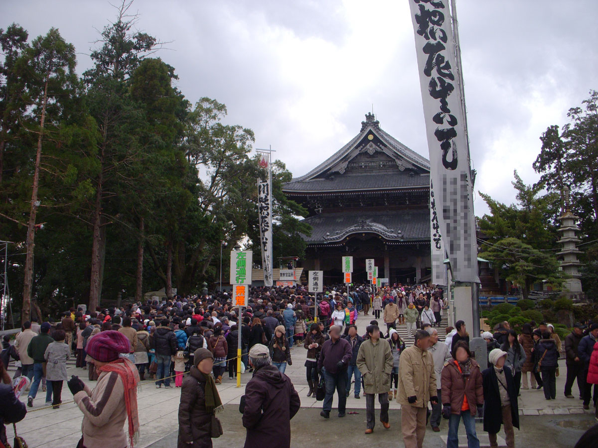 The about 13:00 photography of example New Year's Day of the scenery of the New Year's visit to a Shinto shrine in Toyokawainari